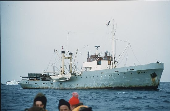 MV Norsel. Free of copyright as a Commonwealth or State government owned photograph and engravings taken or published more than 50 years ago and prior to 1 May 1969